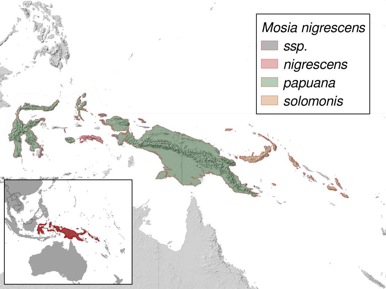 geographic distribution of Mosia nigrescens